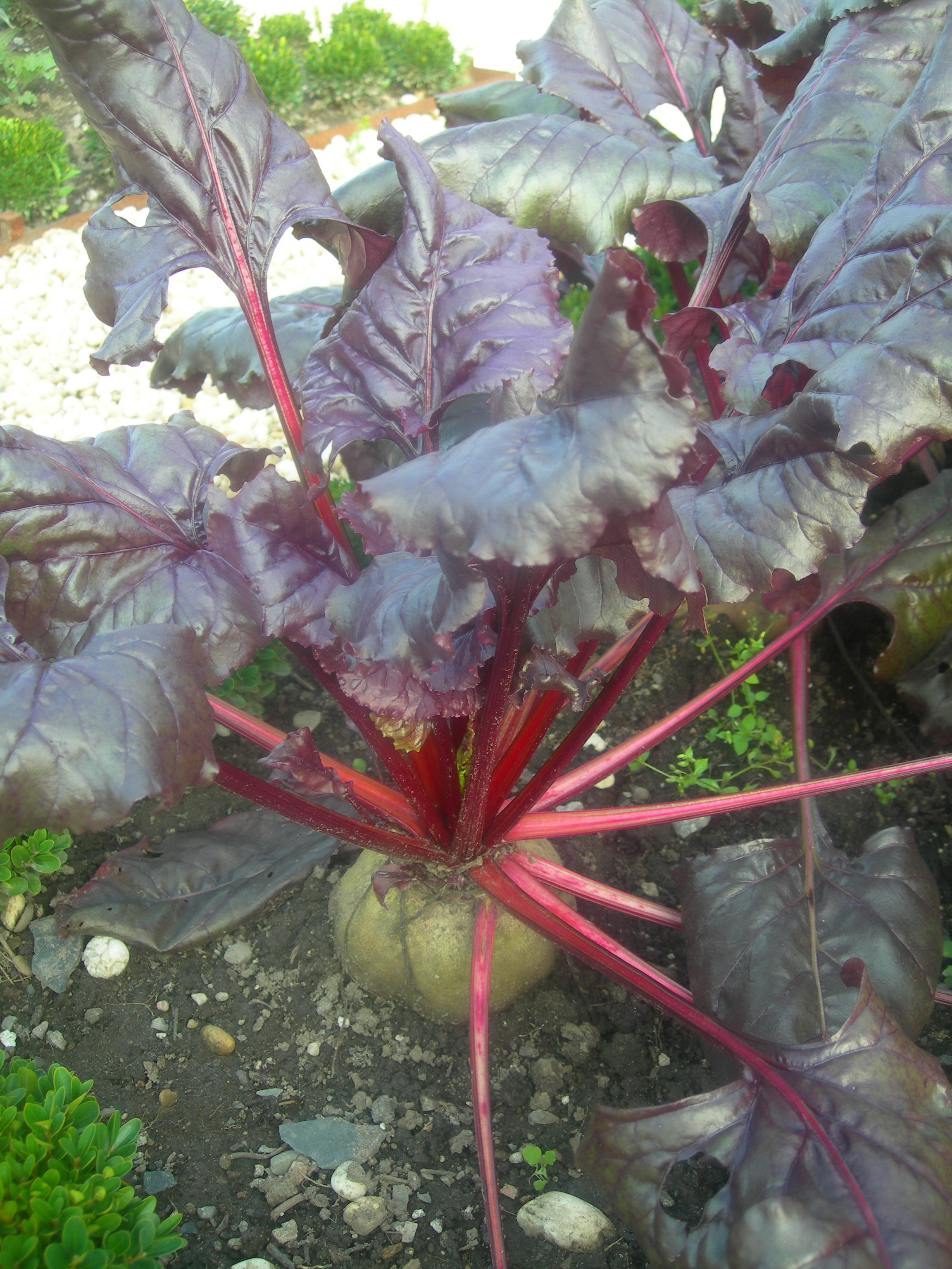 Beetroot